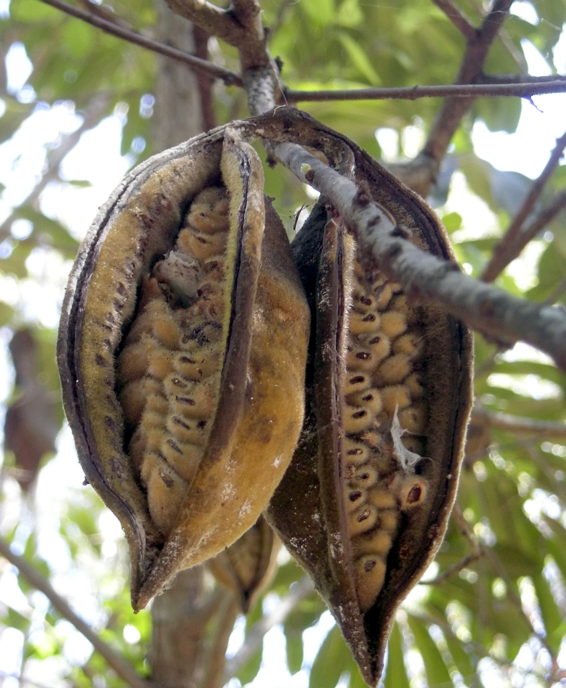 Brachychiton rupestris fruits, Rockhampton, Queensland